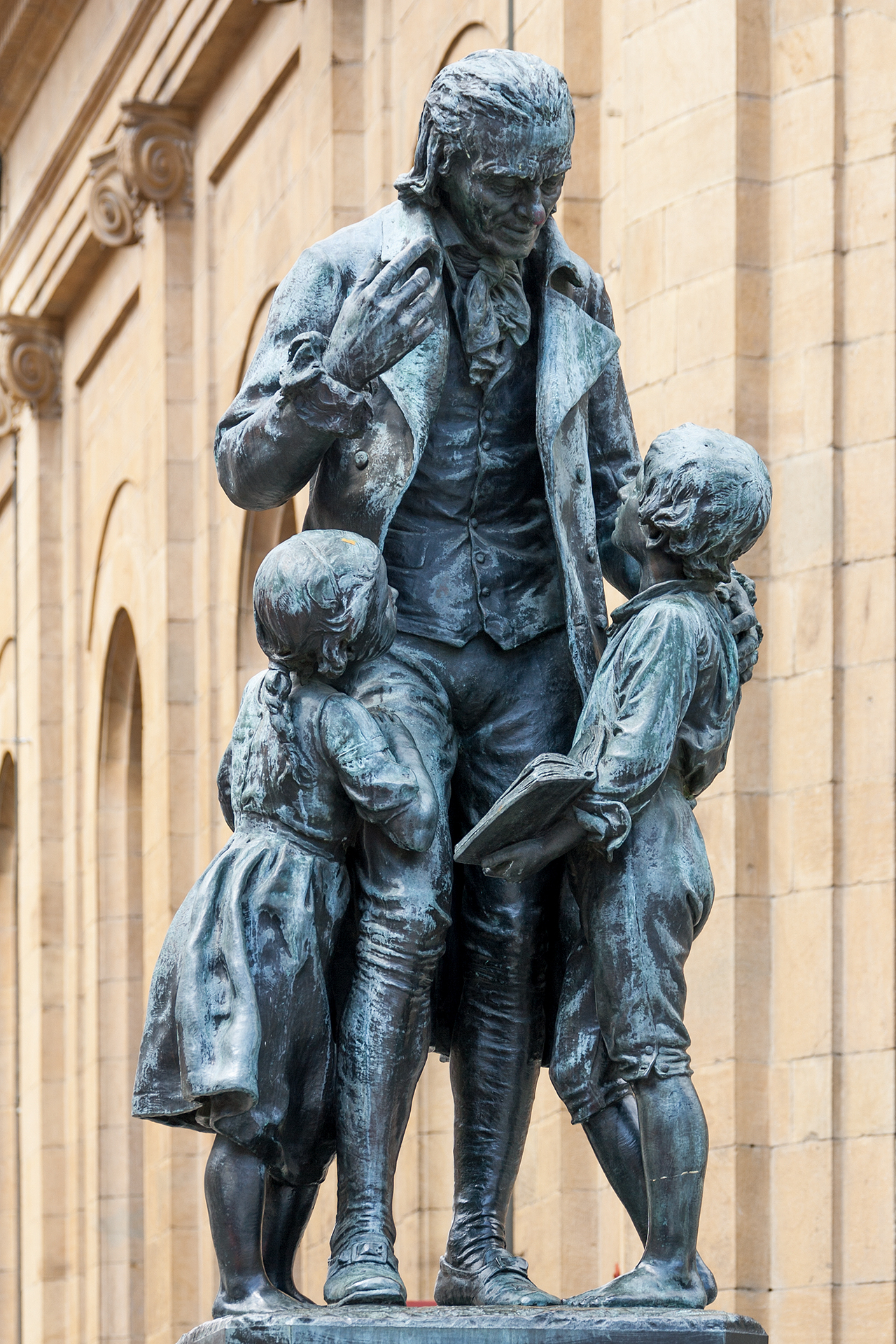 bronze statue of Pestalozzi, downtown Yverdon-les-Bains, by the Neuchâtel lake, Vaud, Switzerland.